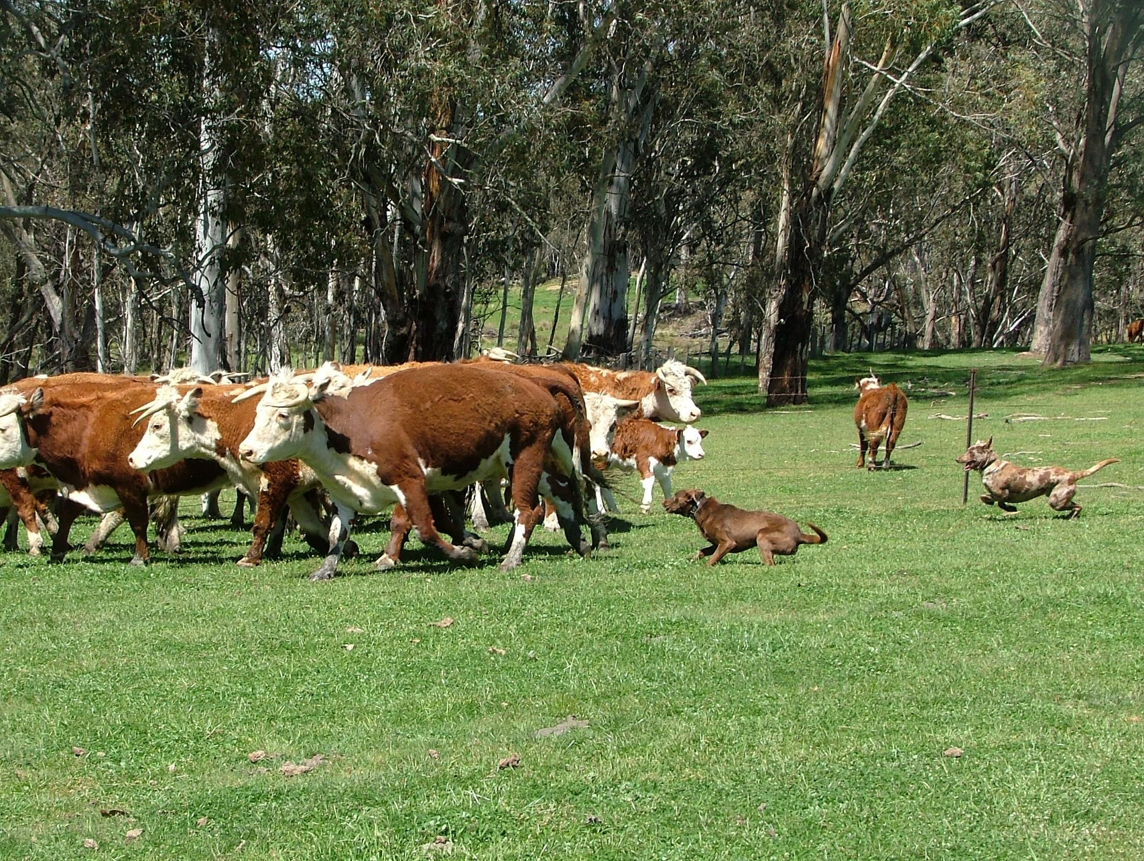 koolie-solid red & red merle work as a team to gather cattle